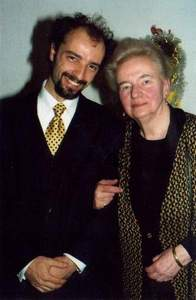 Vitomir Ivanjek with his teacher Blaženka Zorić (Christmas 2002)